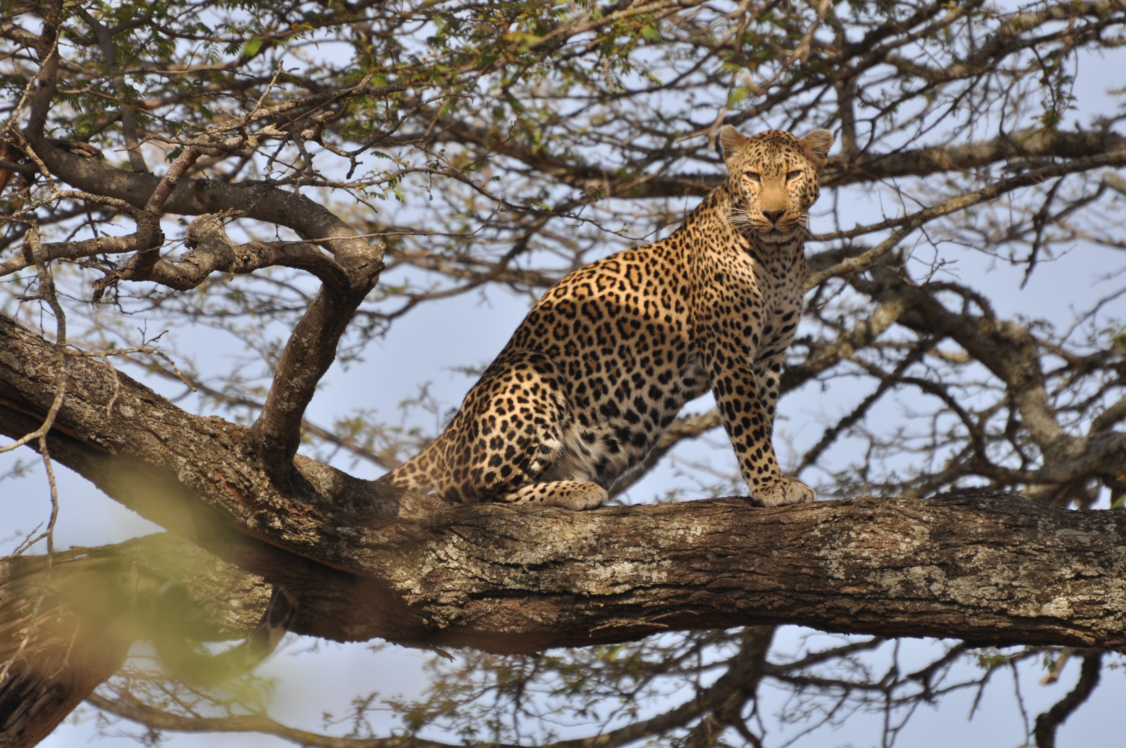 Leopard standing in a tree in the central Serengeti